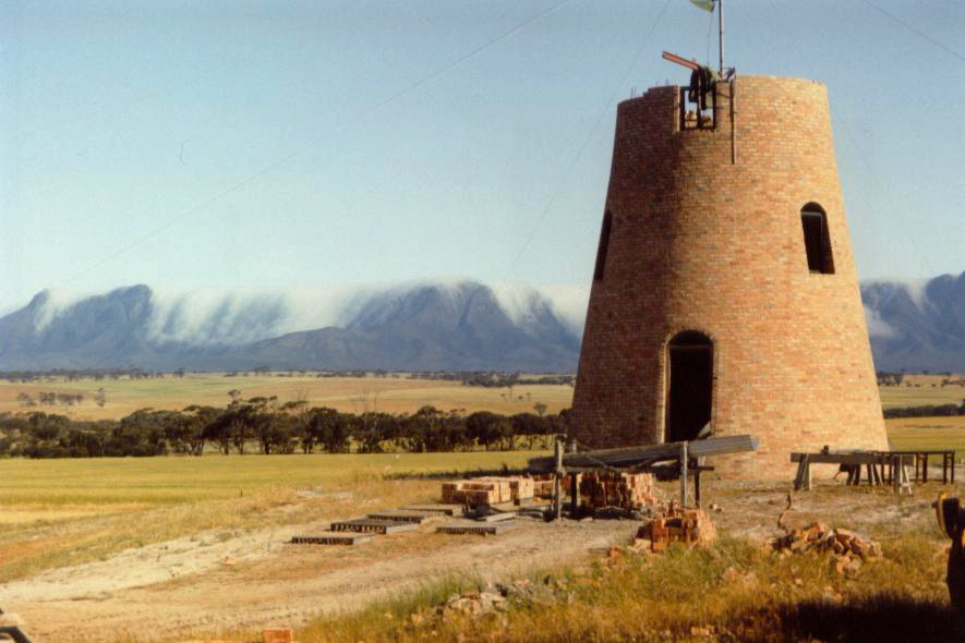 The brick tower of the Lily windmill under construction in 1993 or 1994